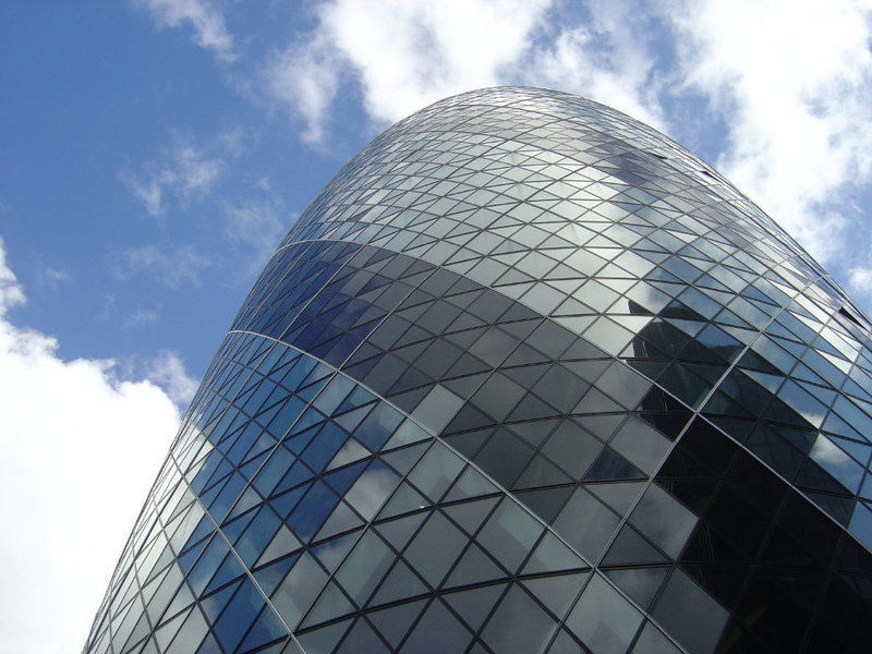 Top of 30 St Mary Axe - 'The Gherkin'. (Description by User:Ricjl on 14:57, 10 June 2004 (UTC) and spelling fixed by User:Arpingstone on 16:64, 8 November 2004 (UTC) copied from the English Wikipedia). Poor composition: subject partially obscured